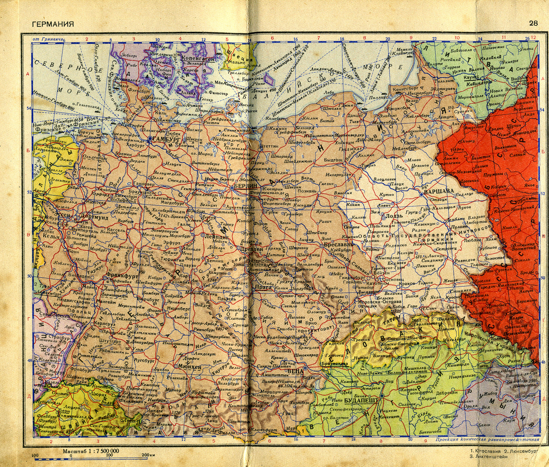 Map of Nazi Germany in 1940 (Russian language)